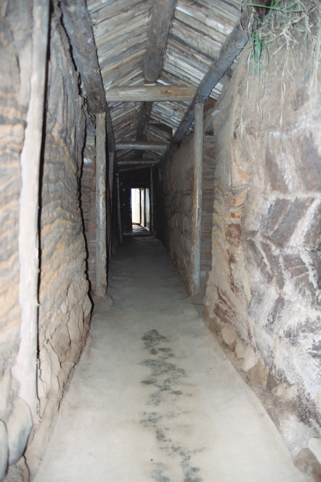 The main corridor of a peat farmhouse Author: Johann Dréo (User:Nojhan) Date: 2004, july Notes: Near the Glaumbær village, in Iceland.